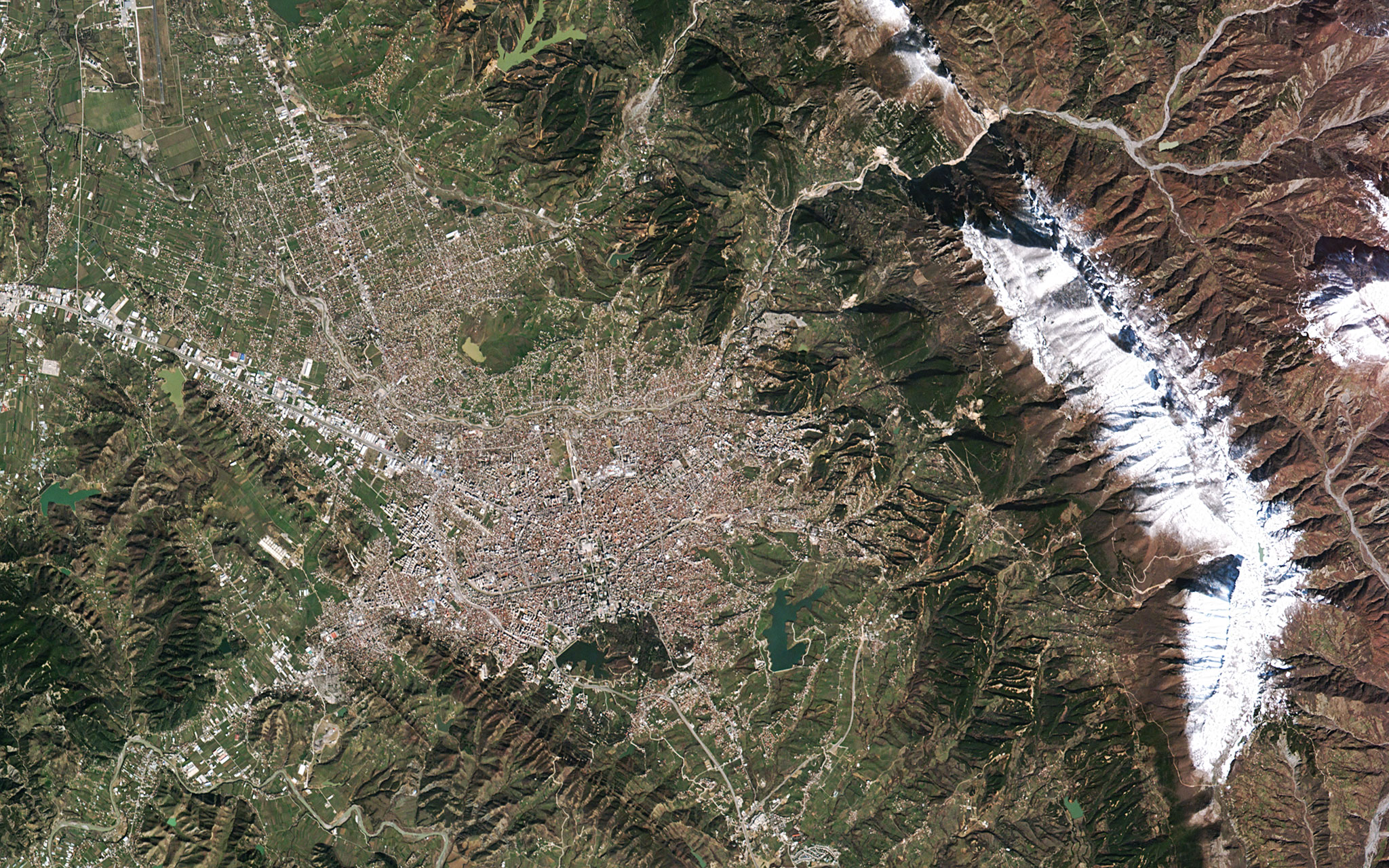 Tirana, Albania, as viewed by Hodoyoshi-1 satellite.